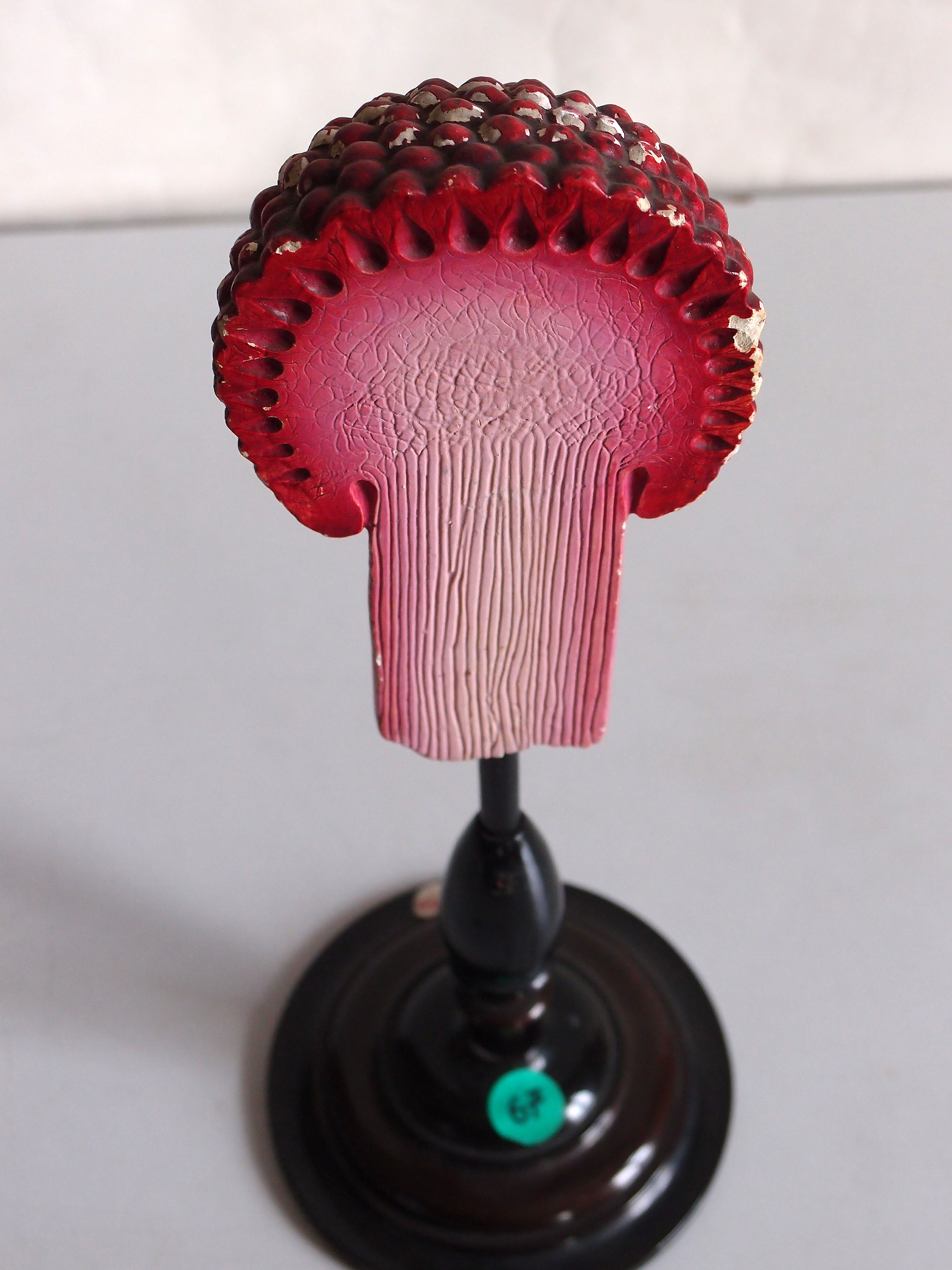 Model from the collection of the Botanical Museum in Greifswald, Germany. . see also for more information on the models